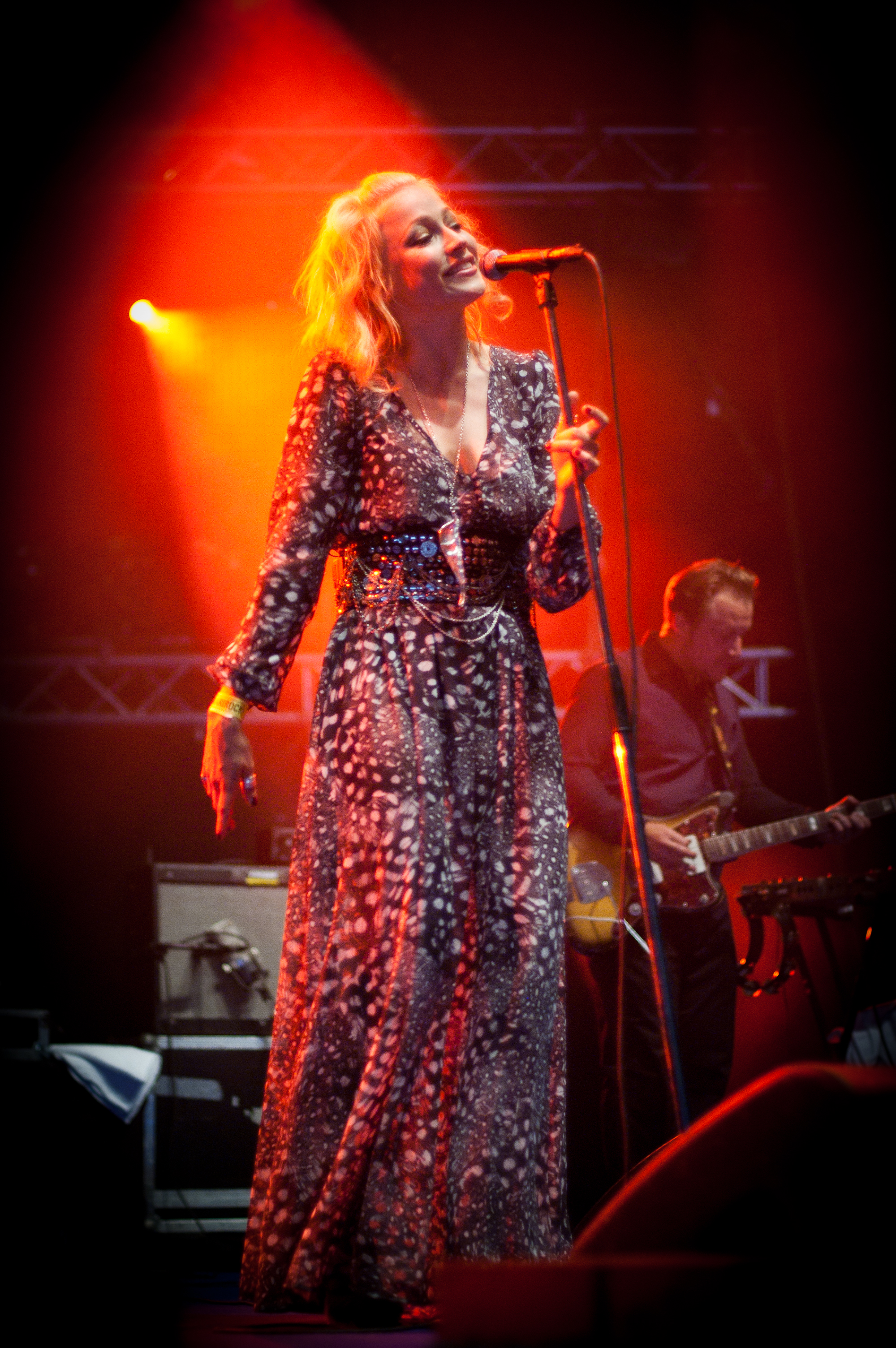 Finnish vocalist Chisu performing at the 2010 Ilosaarirock festival in Joensuu, Finland.